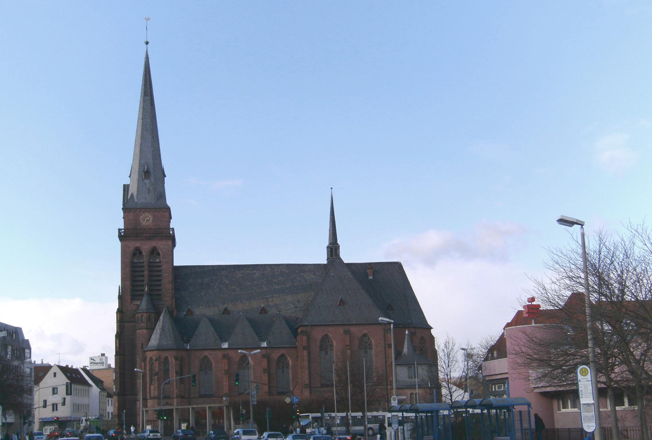 Heilig-Kreuz-Kirche (Church of the Holy Cross) at the city centre of Bad Kreuznach